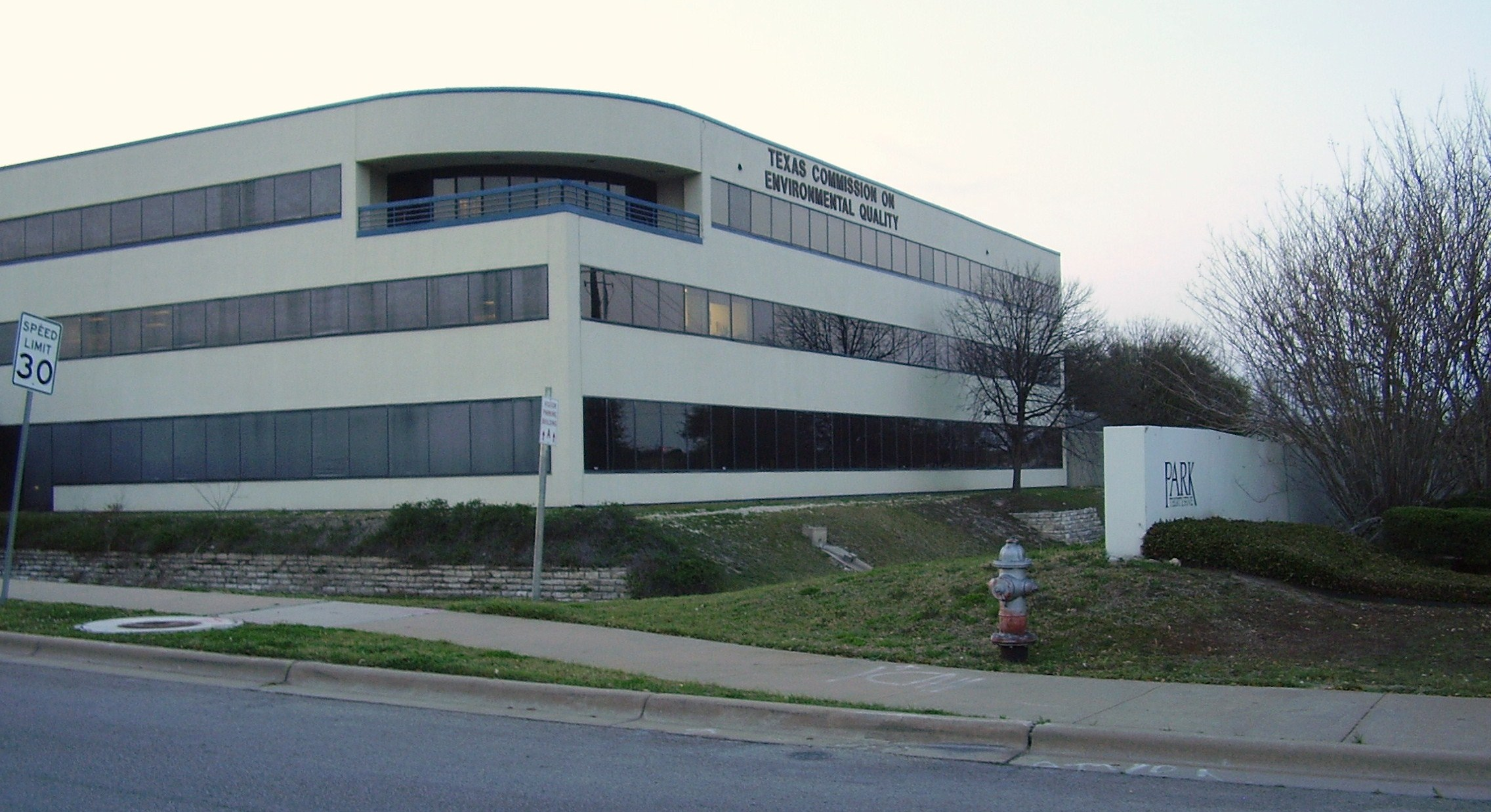 Headquarters complex for the Texas Commission on Environmental Quality - Building C - Austin